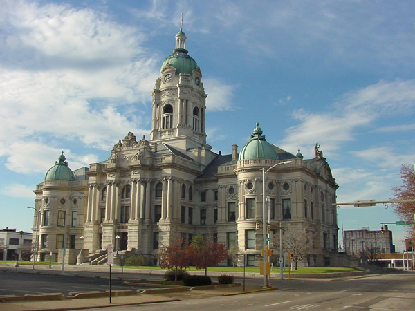 Original photograph with free documentation license.